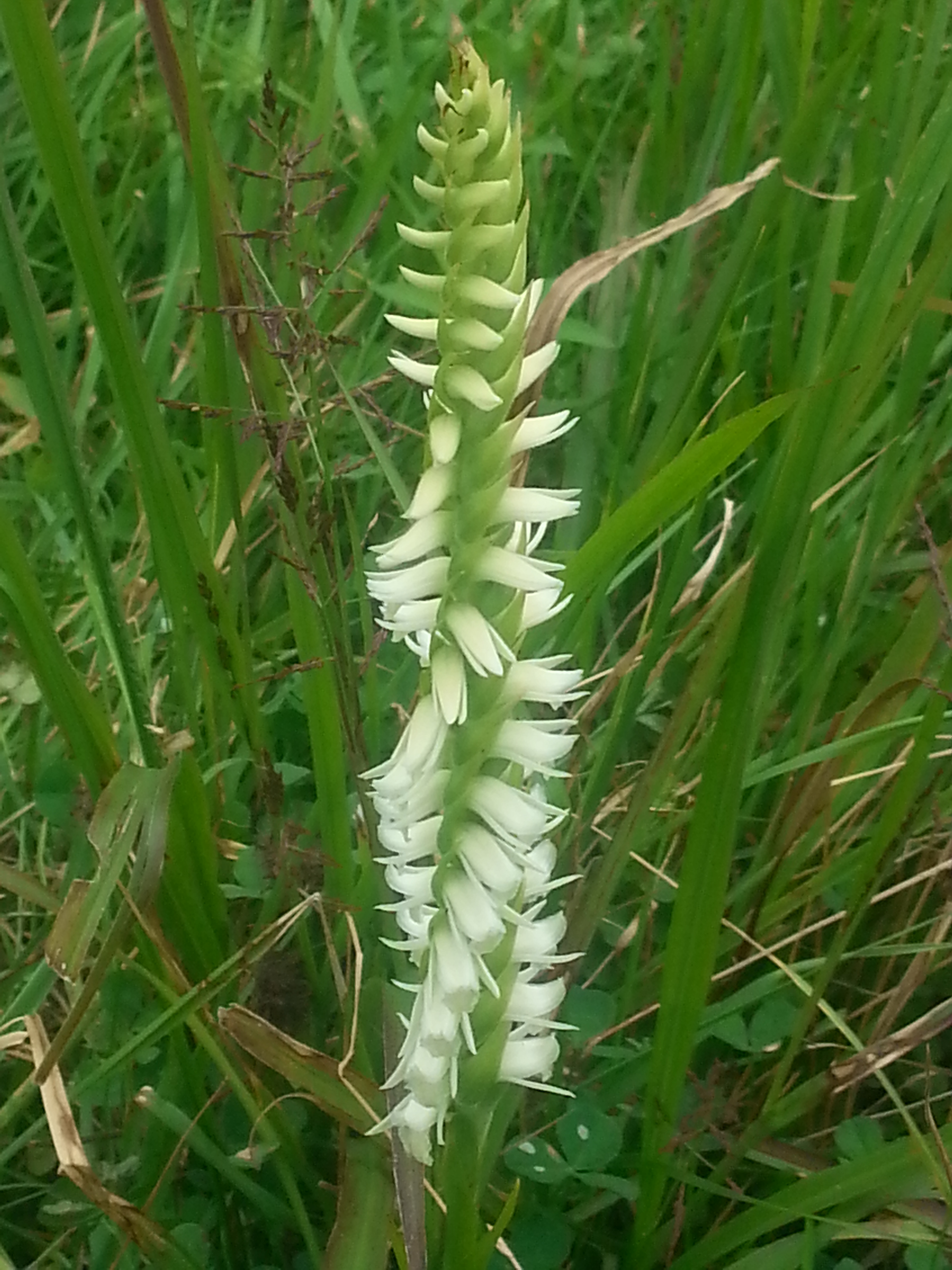 Spiranthes odorata in north east Tennessee